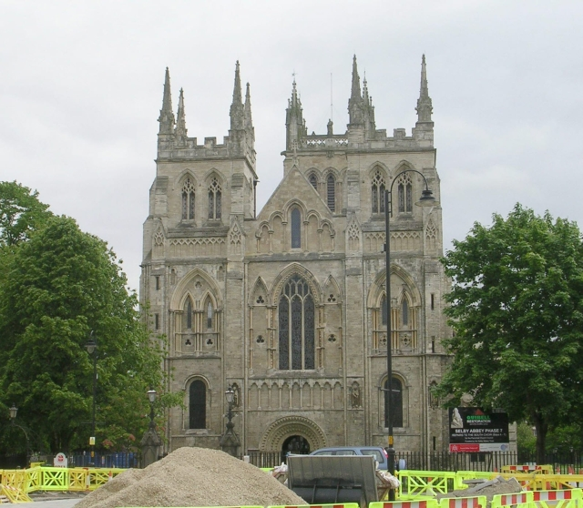 West Front of Selby Abbey Pity about the roadworks!